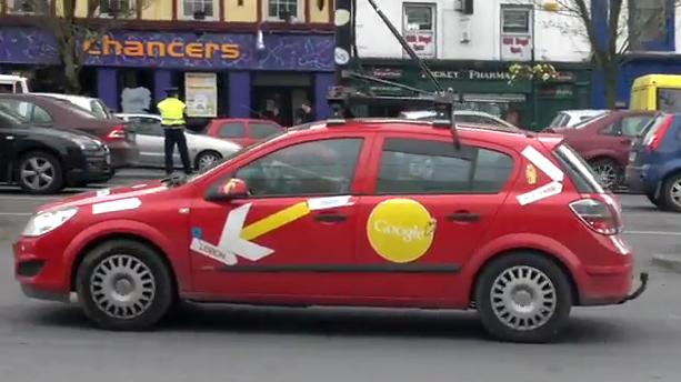 Google Streetview Car Thurles